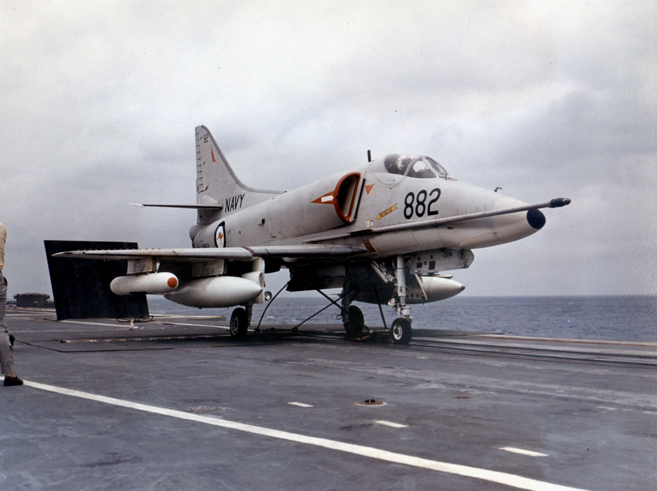 A Royal Australian Navy Douglas A-4G Skyhawk (U.S. Navy BuNo 154903, RAN "882") of VF-805 Squadron aboard the aircraft carrier HMAS Melbourne (R21). "882" was sold to the Royal New Zealand Air Force in 1984.